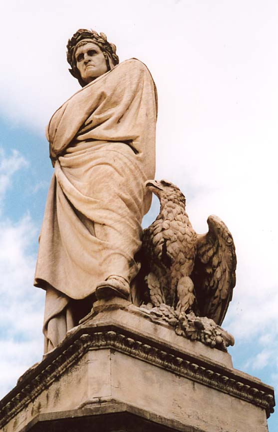 Dante statue in Florence, Italy.